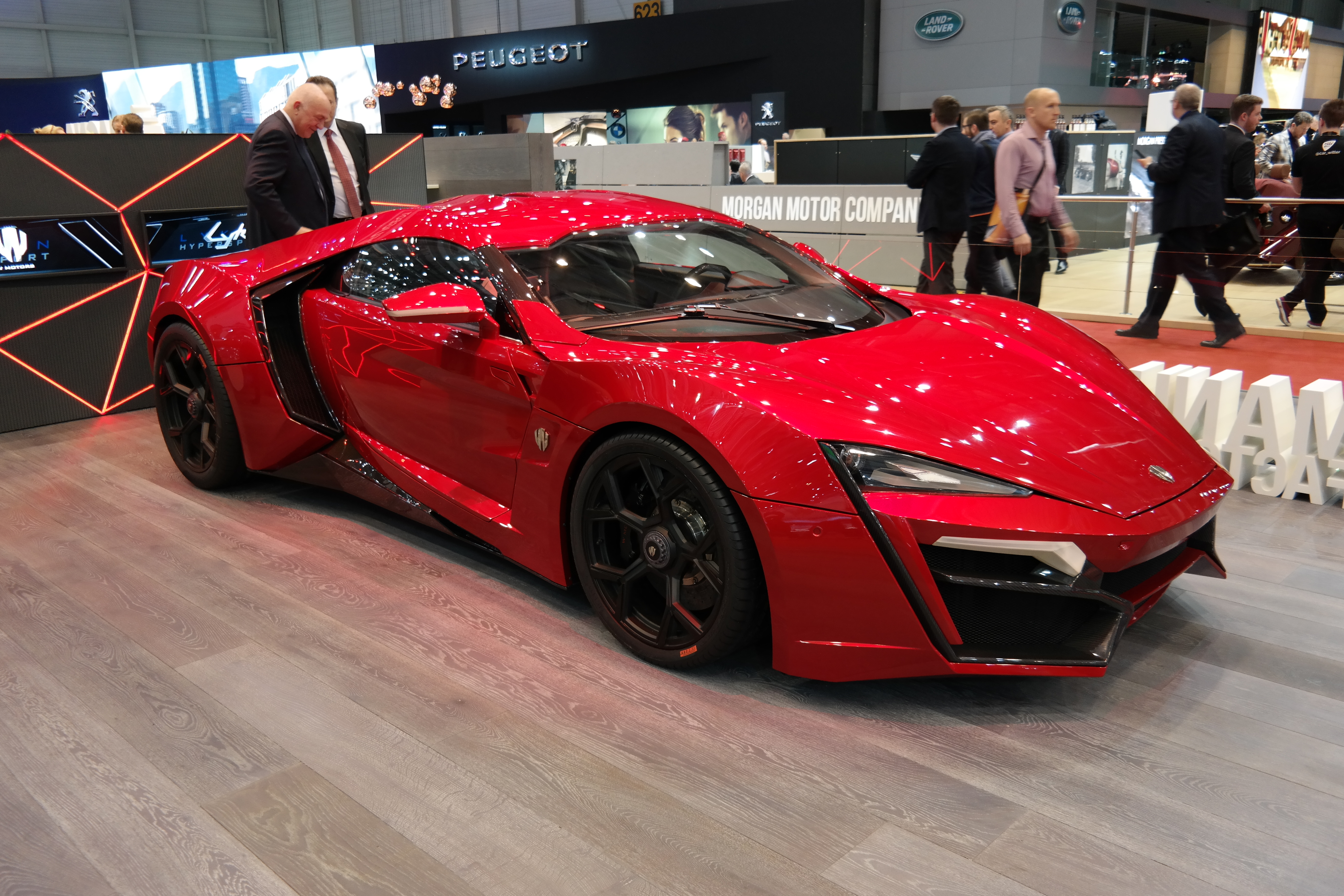 Geneva Motor Show 2016 (photo taken on the first press day)